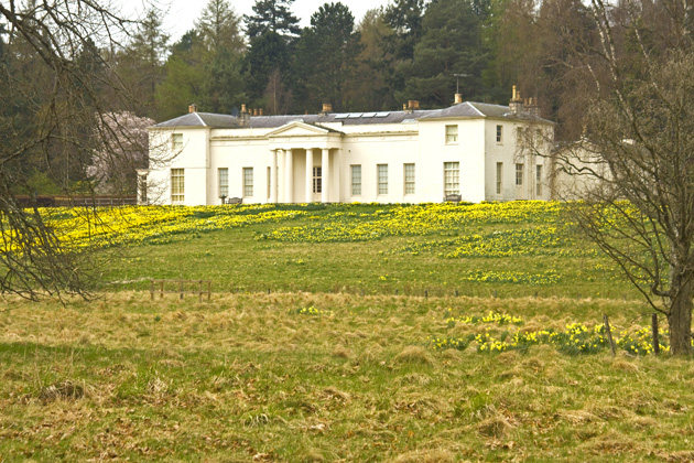 Drumoak (civil parish), Aberdeenshire, Park House